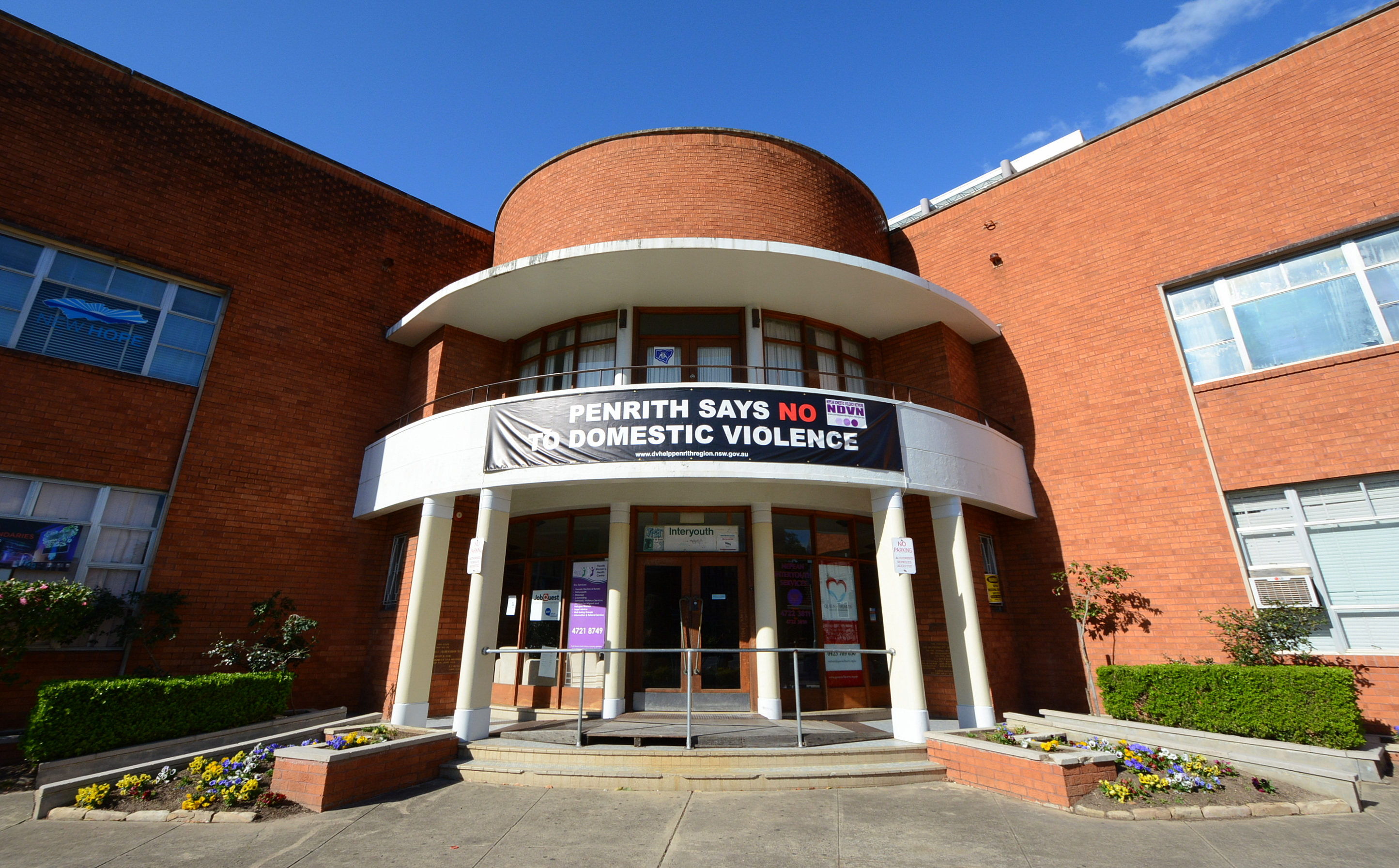 Community building, Henry Street, Penrith, Sydney